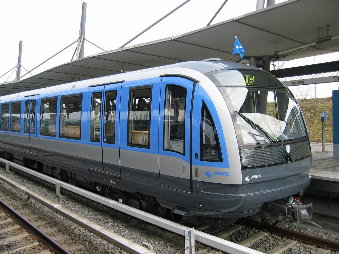 C-Zug of U-Bahn München (Type C 1.9, Car 610) at Garching-HochbrückClass C train at Garching-Hochbrück